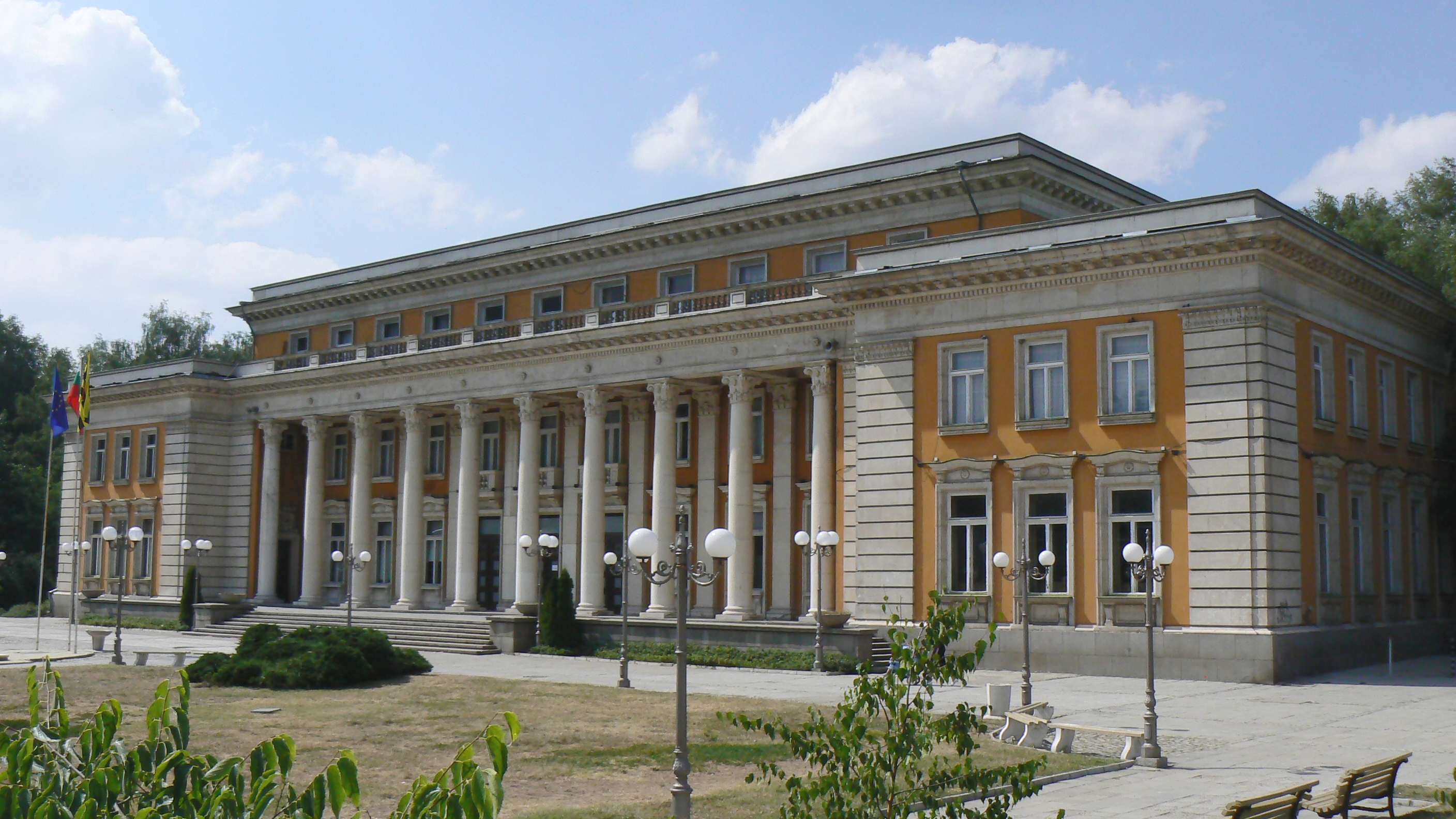 The Palace of Culture in Pernik, Bulgaria